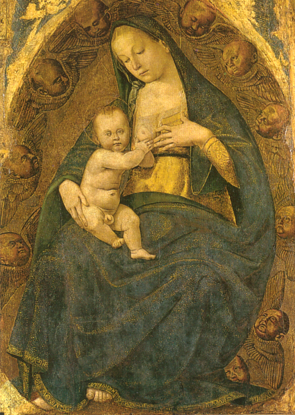 verso of Standard of the Flagellation